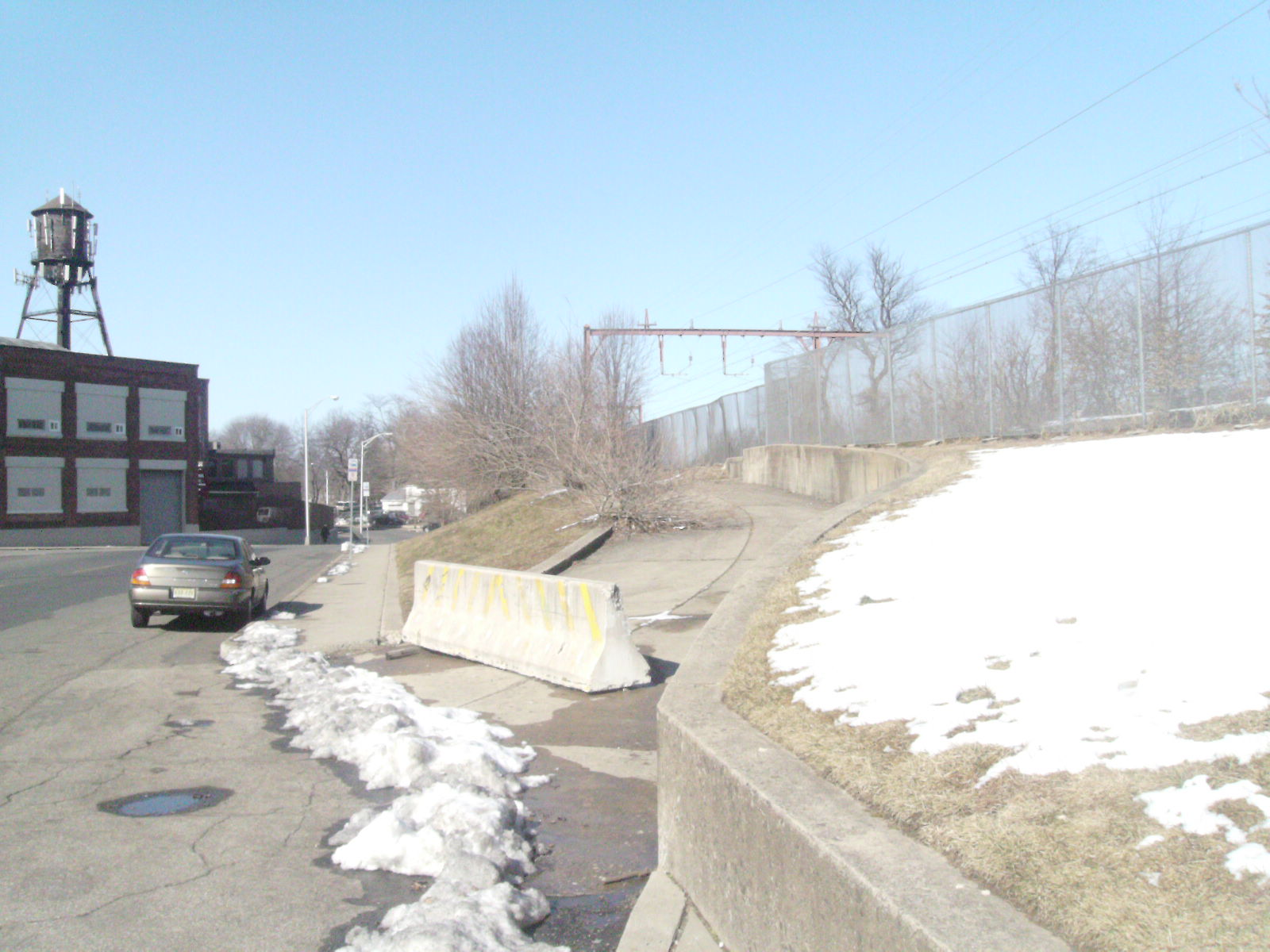 The station at Ampere, New Jersey almost 19 years after closing.